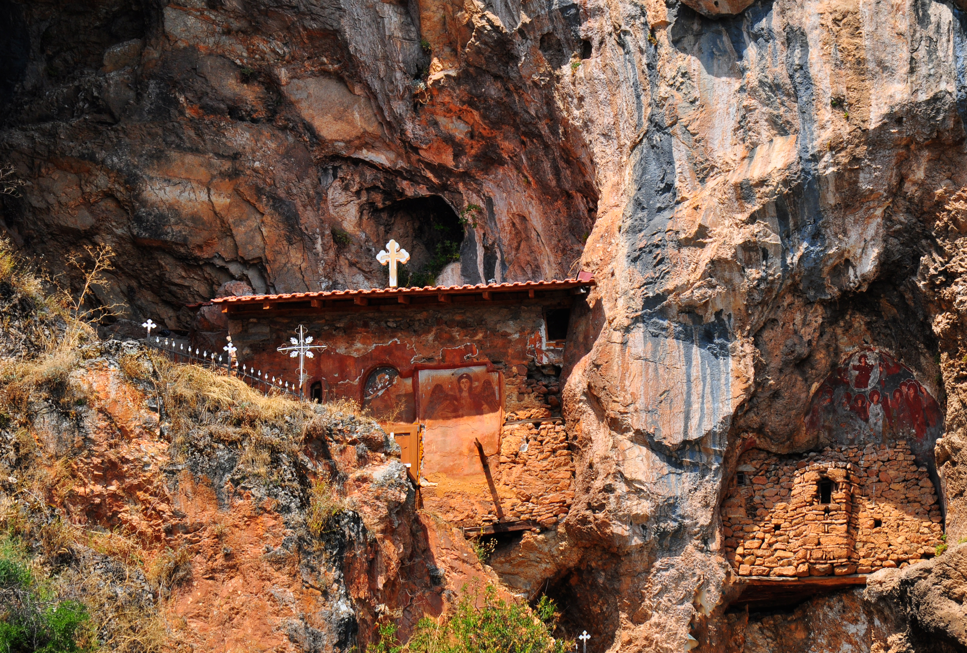 The 14th-century Cave Church of Saint Archangel Michael in the village of Radožda, Struga Municipality, Macedonia.